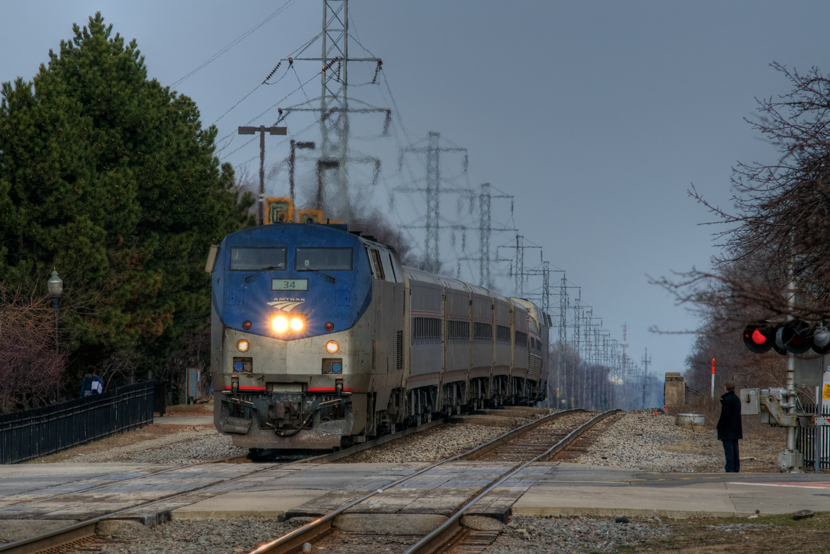 The eastbound Wolverine at Royal Oak station in March 2011